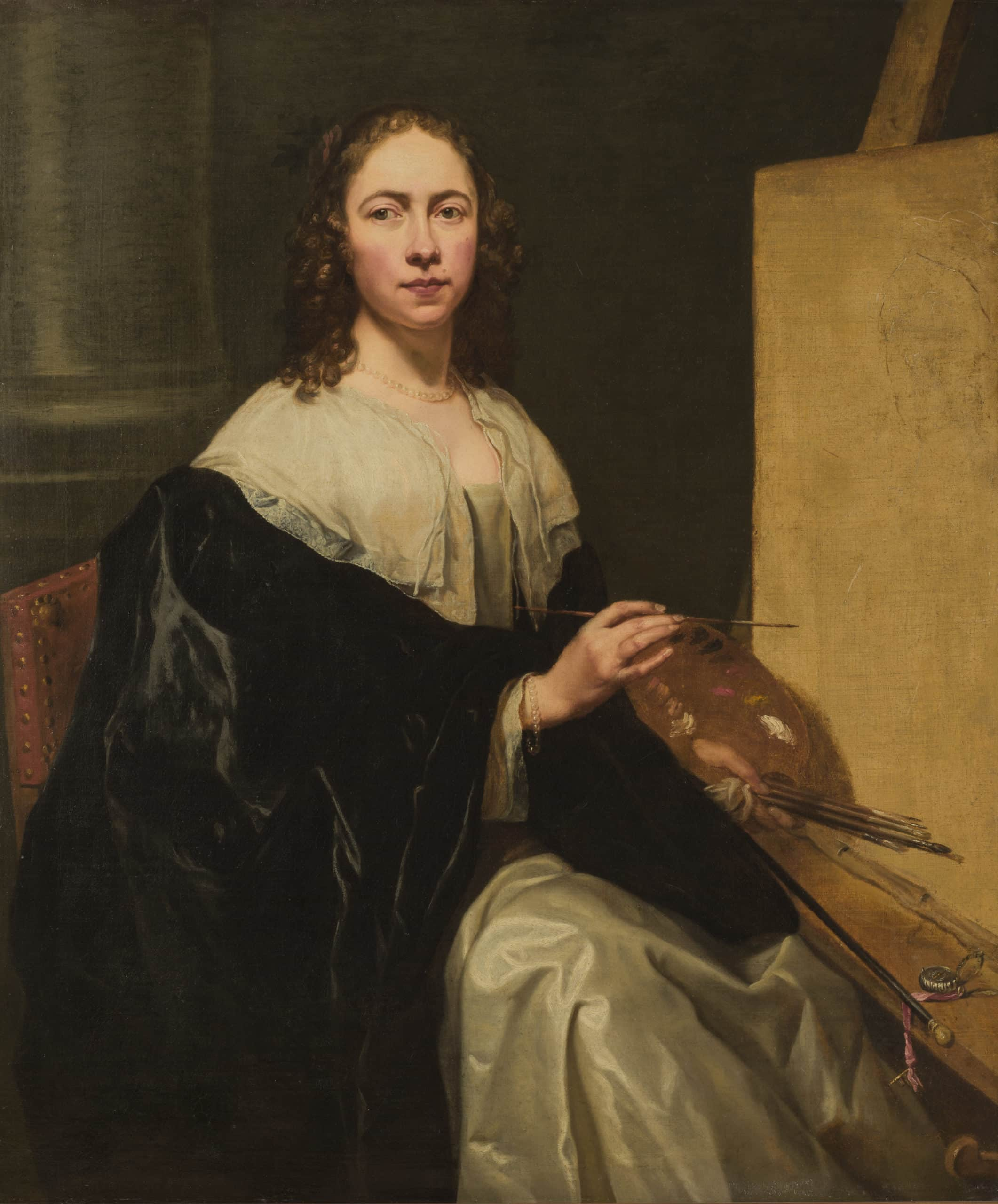 Self-Portrait by Michaelina Wautier (detail)